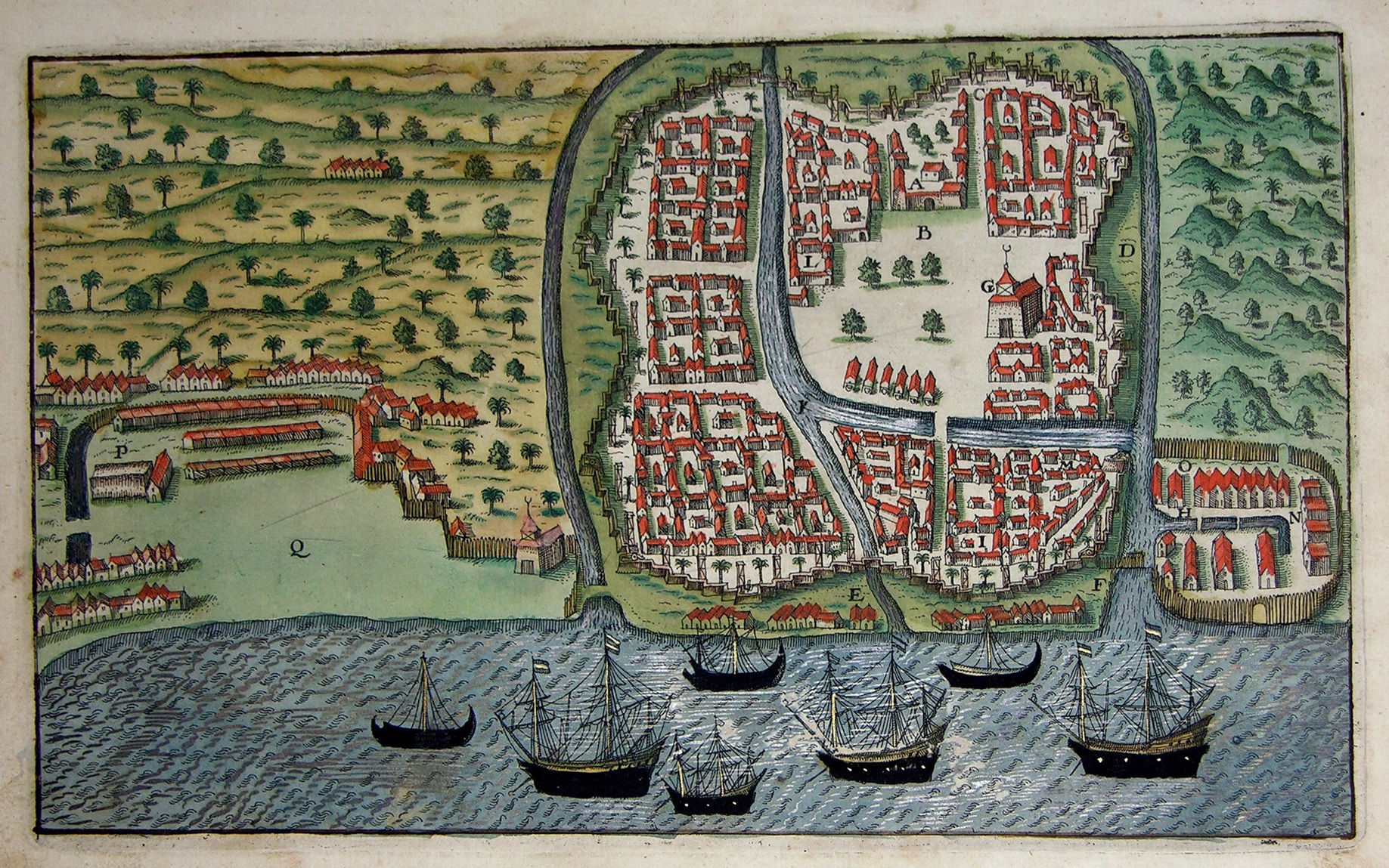 De Bry, Johann Theodor, (1560-1623) and Johann Israel de Bry (1565-1609). Part III, Bird’s-eye View of the City of Bantam. From the “Little Voyages”BIRD’S-EYE VIEW OF THE CITY OF BANTAMThe legend offers the following interpretation of the illustration:A: The royal palaceB: The Paceban, the market placeC: The landgateD: The mountain gateE: The watergateF: The barrierG: The towerH: The mosqueI: Chinese homesL: The court of the Pangeran, the local commanderM: The river crossing the townN: The court of Sabandar, the harbor masterO: The court of the admiralP: The court of Satie Moluc, the court of the governor's brotherR: The court of Chenopate, the general to the monarch, the court of PanjasibaT: The Chinese marketV: The court of Andemoin, the Dutch loge or warehouseY: Homes of the Guzerate and the Bengali, the Indian merchantsZ: Ammunition house or arsenal